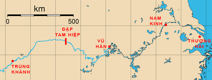 Map of the location of the Three Gorges Dam, Sandouping, Yichang, HubeiHubei Province, China and major cities along the Yangtze River. This map was generated using the Generic Mapping Tools (GMT). The coordinates (longitude, latitude) of the cities used are: *Wuhan, 114.2790 30.5725 *Nanjing, 118.7833 32.0500 *Shanghai, 121.4730 31.2479